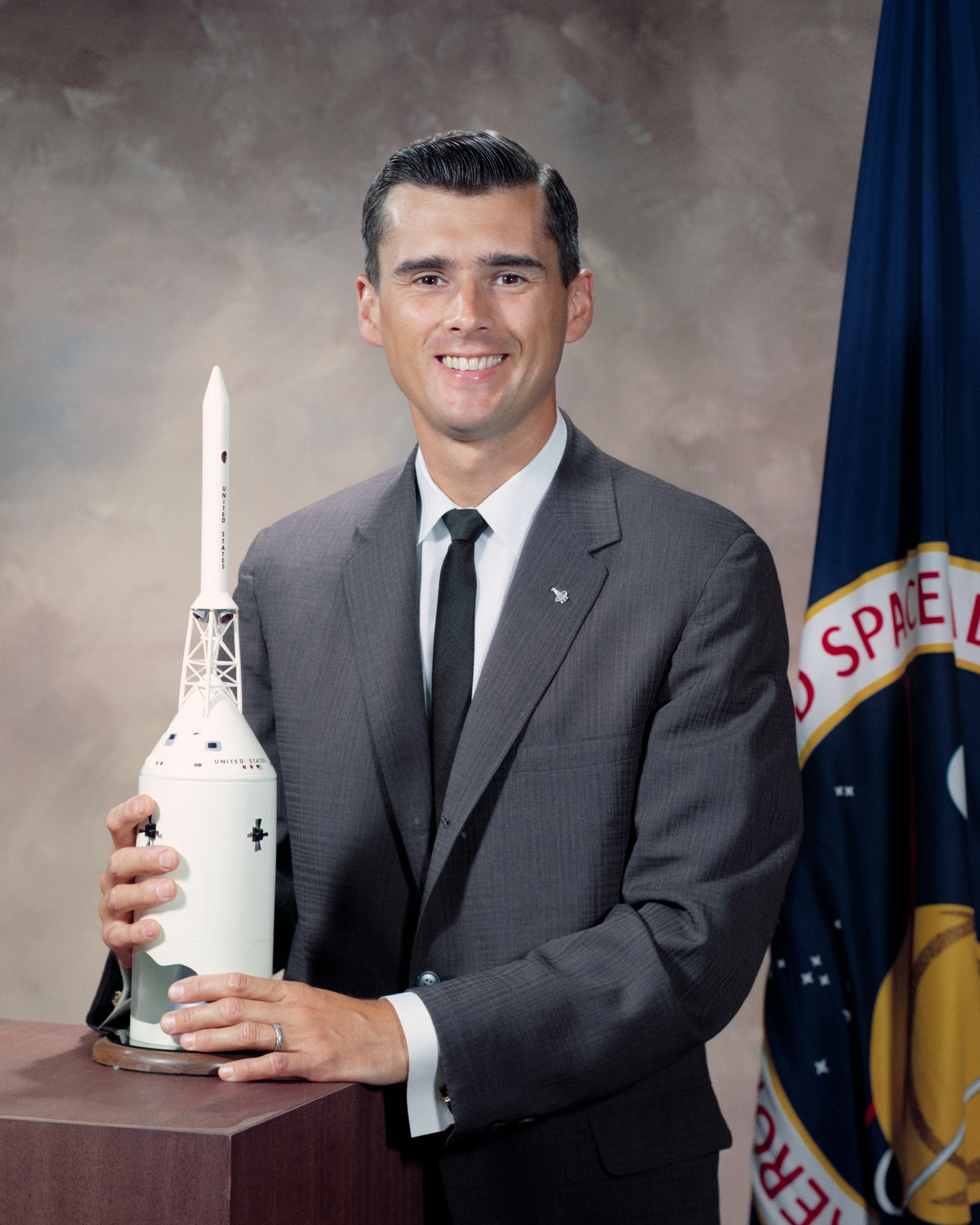 Astronaut Roger B. Chaffee Editor's Note: Astronaut Chaffee died in the Apollo/Saturn 204 fire accident at Cape Canaveral. Florida, on Jan. 27, 1967, along with astronauts Virgil I. Grissom and Edward H. White, II.